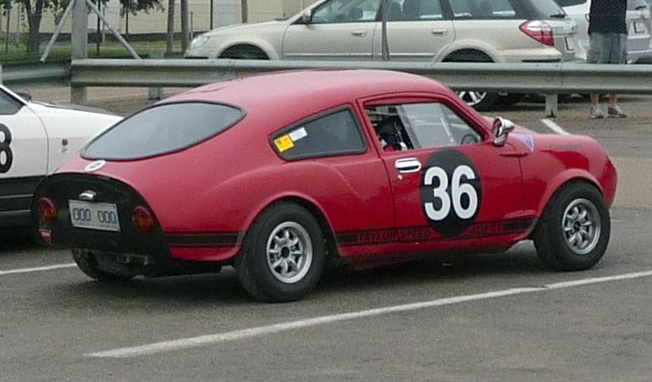 The "festival of sporting cars" race meeting at Goulburn's Wakefield Park Raceway featured a wide variety of cars in each race, none moreso than in my Dad's race (he's in the clubman #117). In this pic is a fibreglass bodied Taylorspeed Jem Mk.1 (with Mini Cooper S underpinnings). The Mk.2 has a rear windshield with a squared off bottom. Also note the Australian Mini doorhandles used on this example.